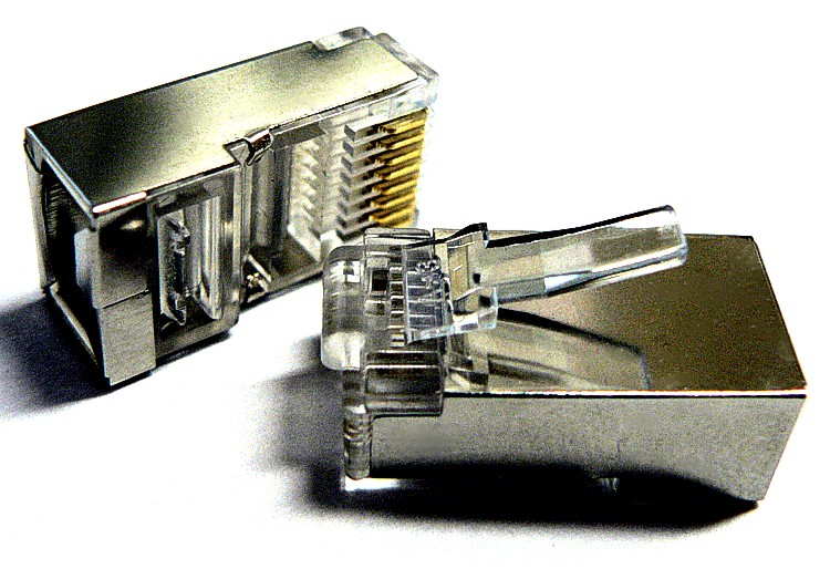 RJ-45 8P8C shieleded male